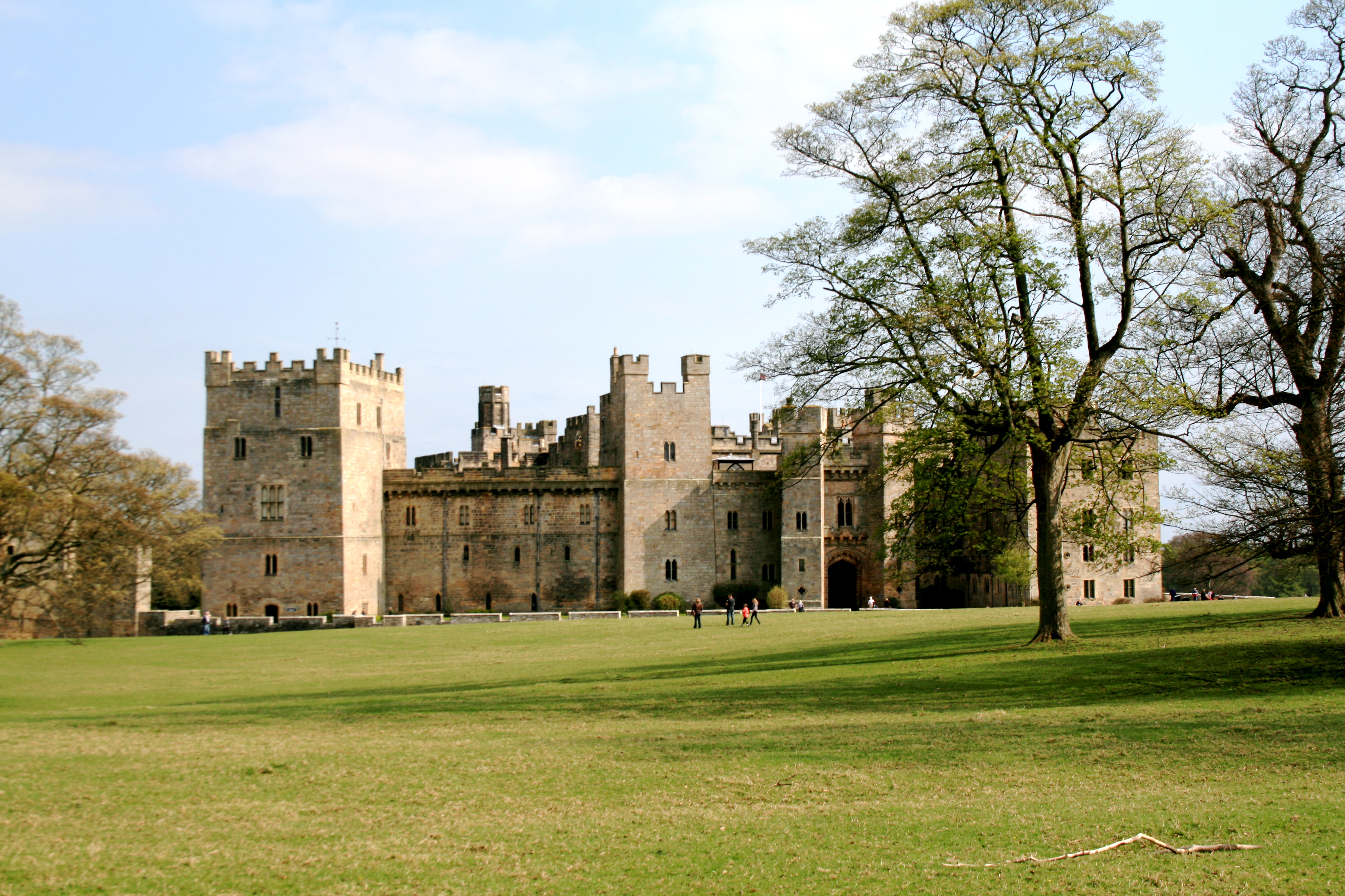 Raby Castle, County Durham, England, Great Britain.